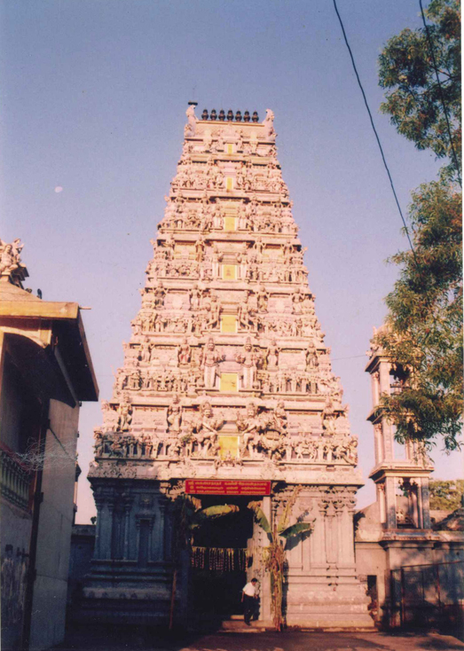 Colombo Captain's Garden Kailasanathar Temple